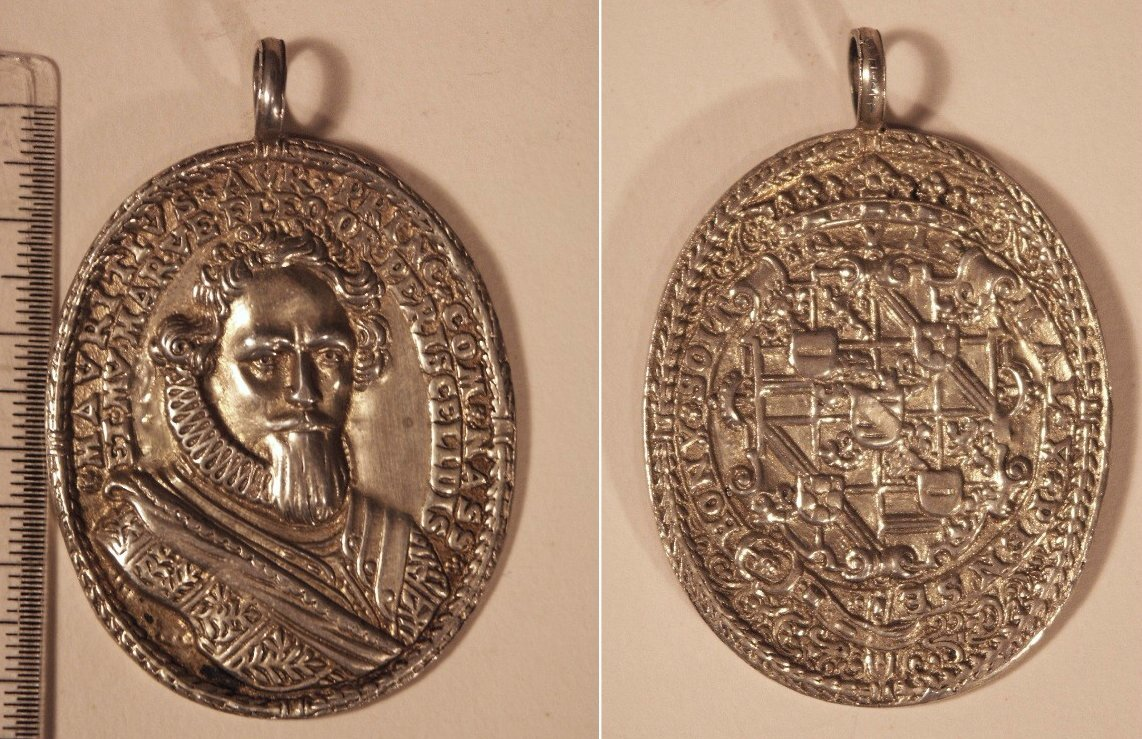 Medal by Rottermont, 1615. Picture of own object